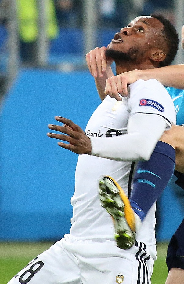 Samuel Adegbenro with Rosenborg in an Europa League game against Zenit St. Petersburg.